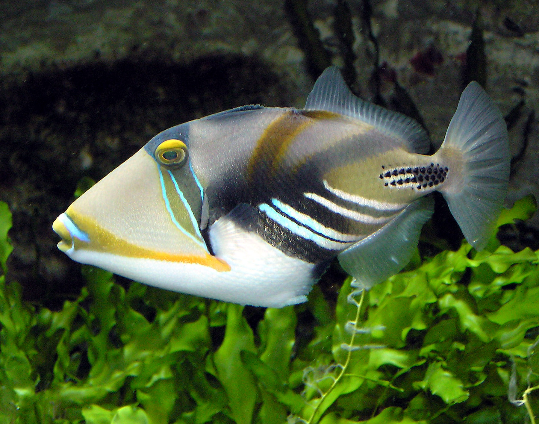 Picasso triggerfish (Rhinecanthus aculeatus) at Bristol Zoo, Bristol, England. Photographed by Adrian Pingstone in December 2005 and released to the public domain.